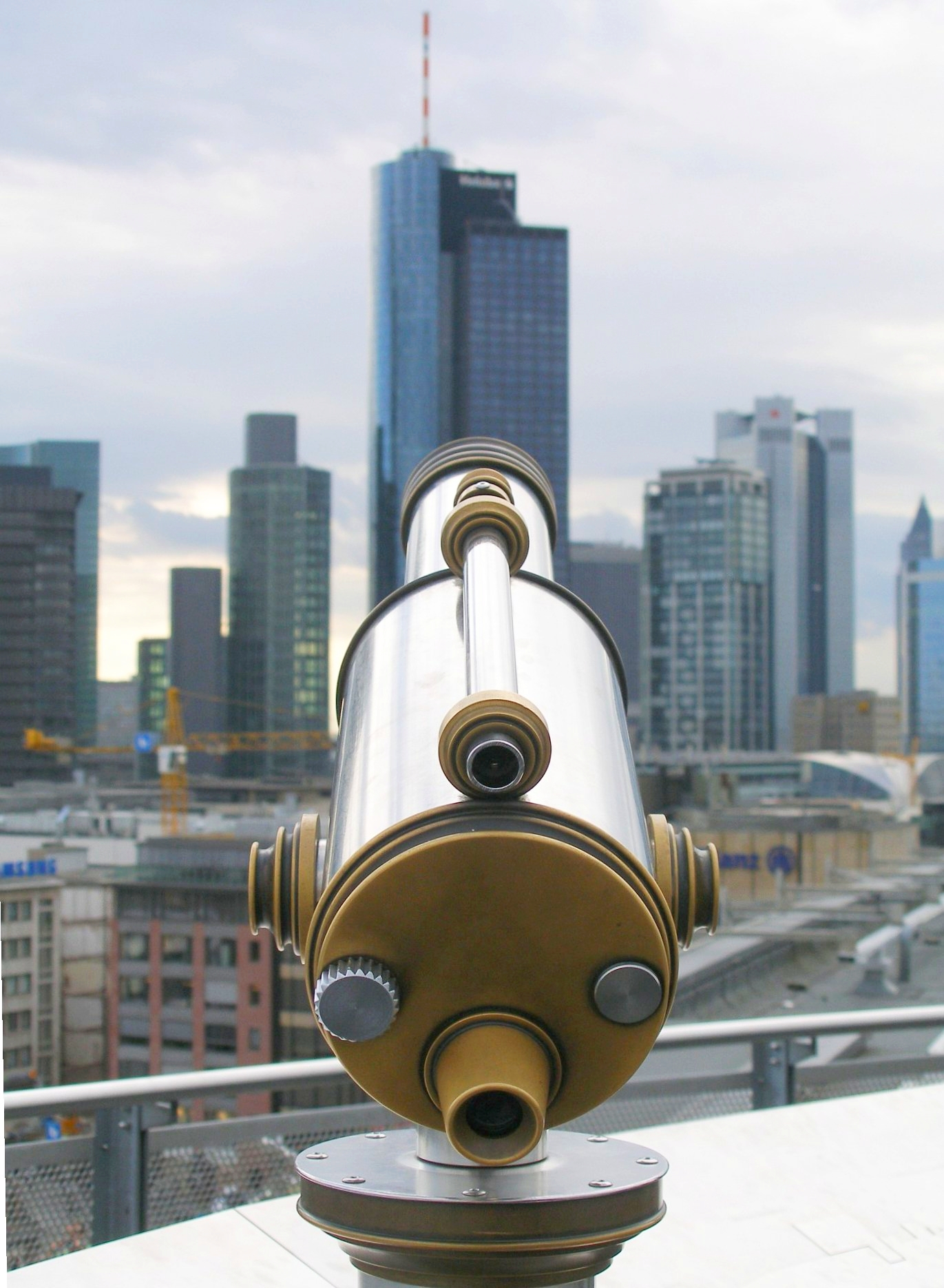 Fernrohr auf der Dachterrasse - Telescope on the roof terrace/ Zeilgalerie/ Frankfurt a. M.